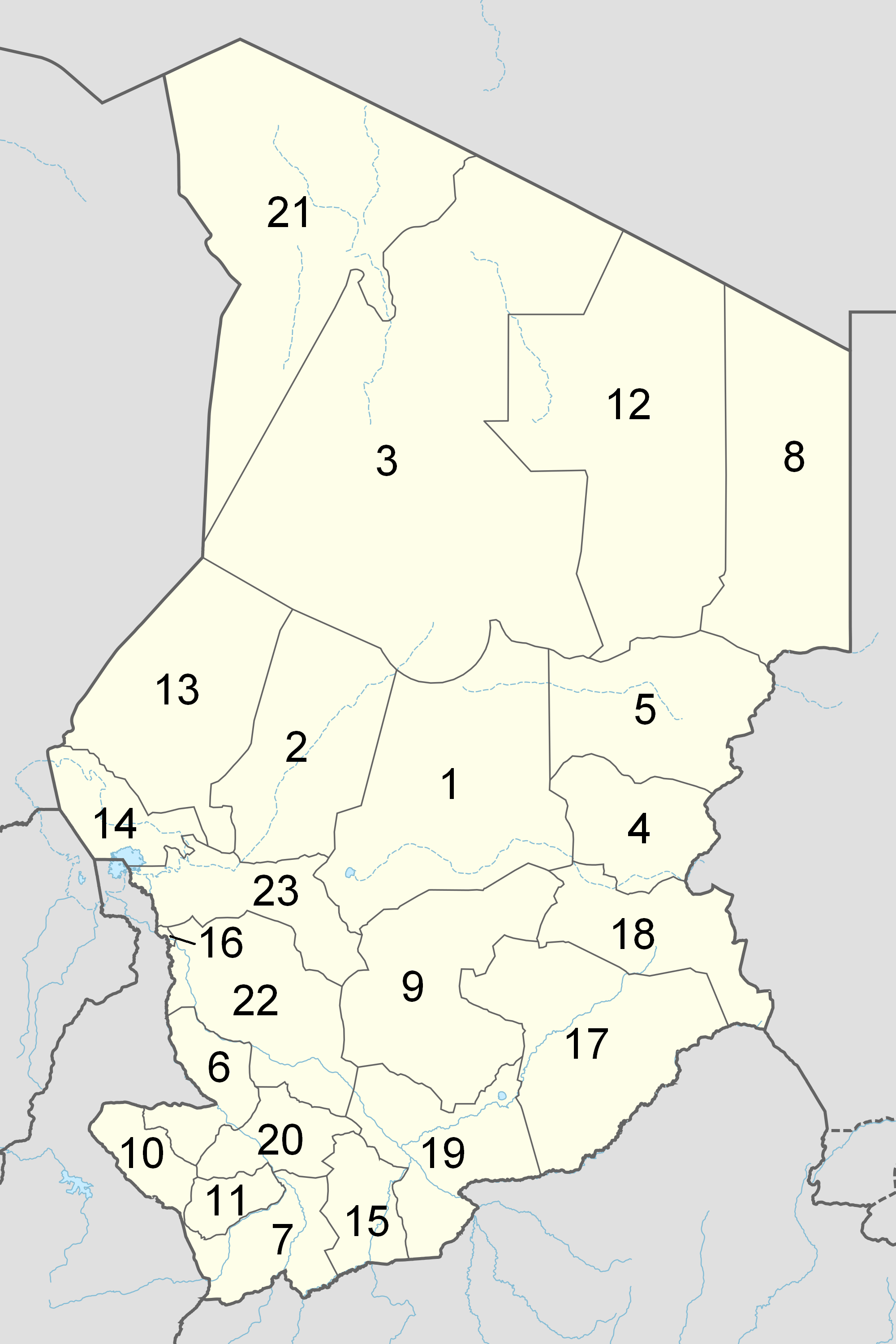 Numbered map of the administrative regions in Chad as after the 2012 reform.